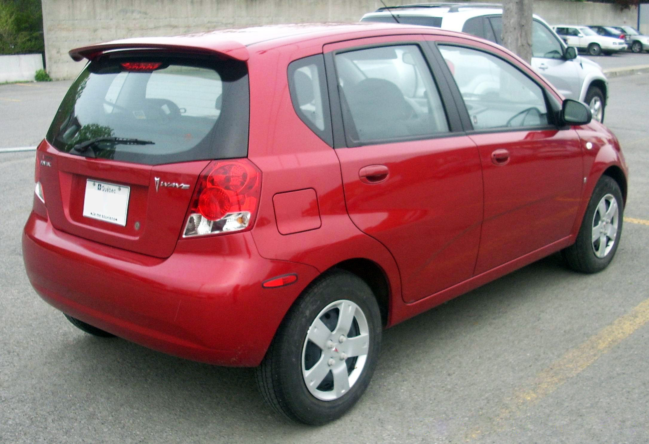 2007-2008 Pontiac Wave photographed in Montreal, Quebec, Canada.